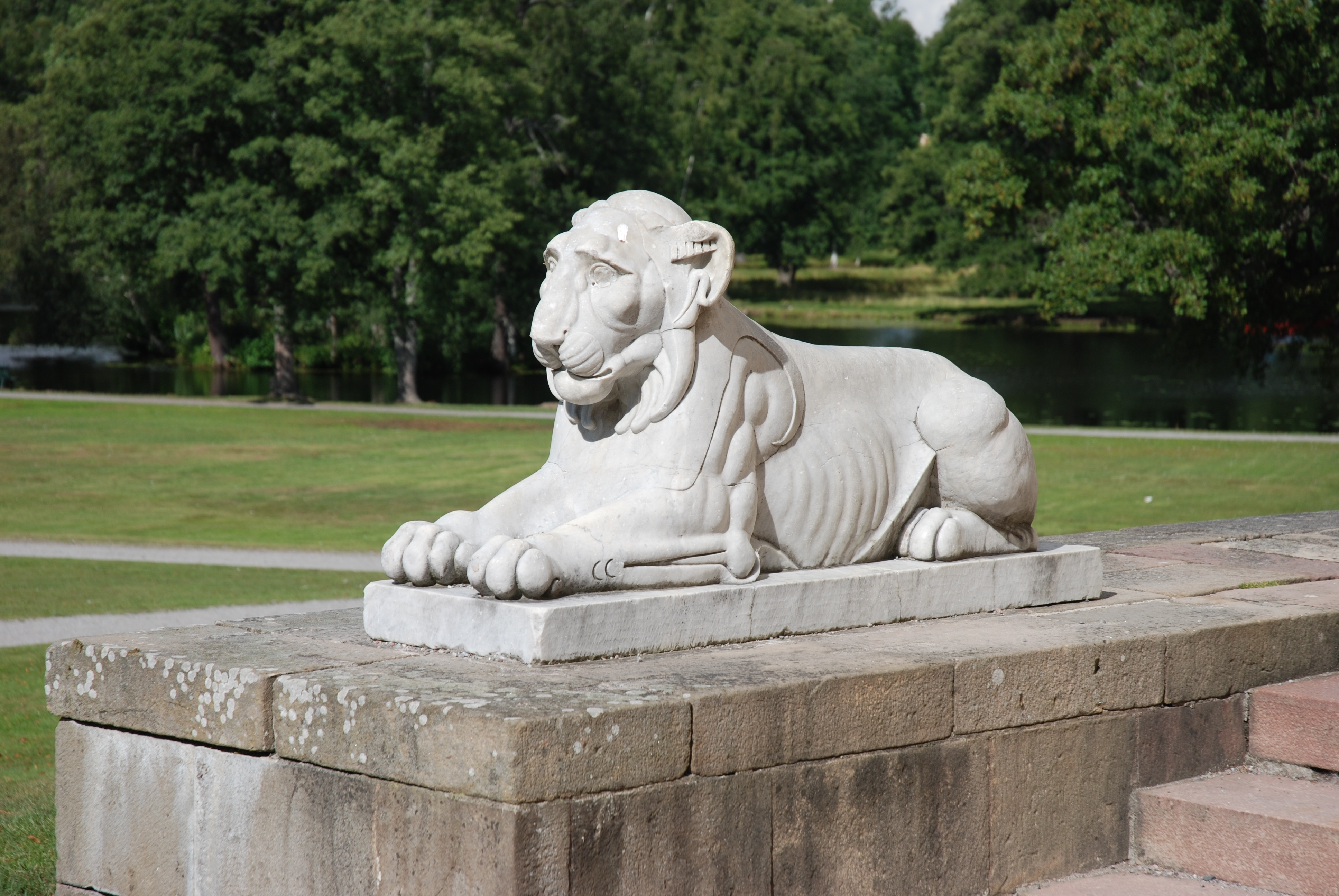 Marble lion outside the Drottningholm Castle Theatre. One of two 18th Century Italian copies of Egytian lions, probably from Ptolemaian time.